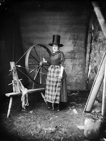 1 negative : glass, dry plate, b&w ; 21.5 x 16.5 cm.